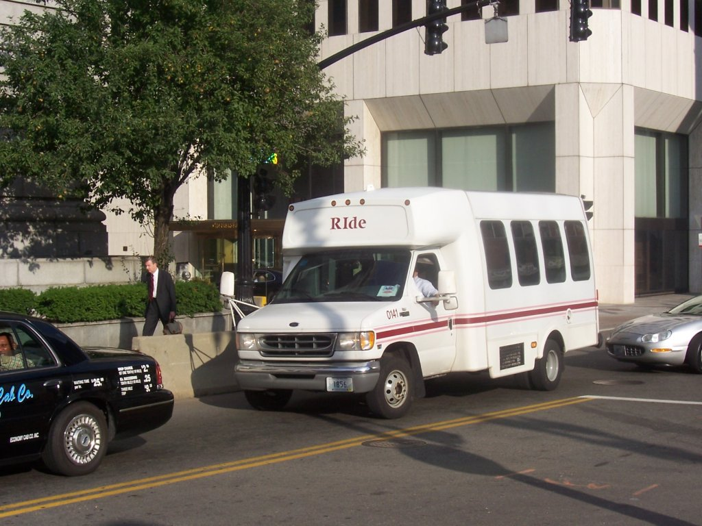 RIPTA RIde vehicle #0141 in downtown Providence